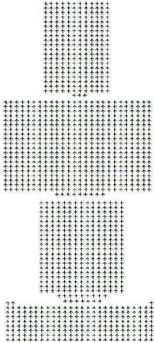 Graphical representation of the four waves of bombers that attack Dresden during 13, 14, and 15 february 1945. First and second wave: night bomber Avro Lancaster 243+529 (772). Target: City area. Third and fourth wave: day bomber Boing B-17 Flying Fortress (316, 211). Total= 1299. Target: Marshalling yards. This representation does not show the real strategig spatial repartition, only the number of bombers in each of the four waves. Source of the numbers (772,316,211) : Authoritative tabulation of the US Air Force Historical support division.